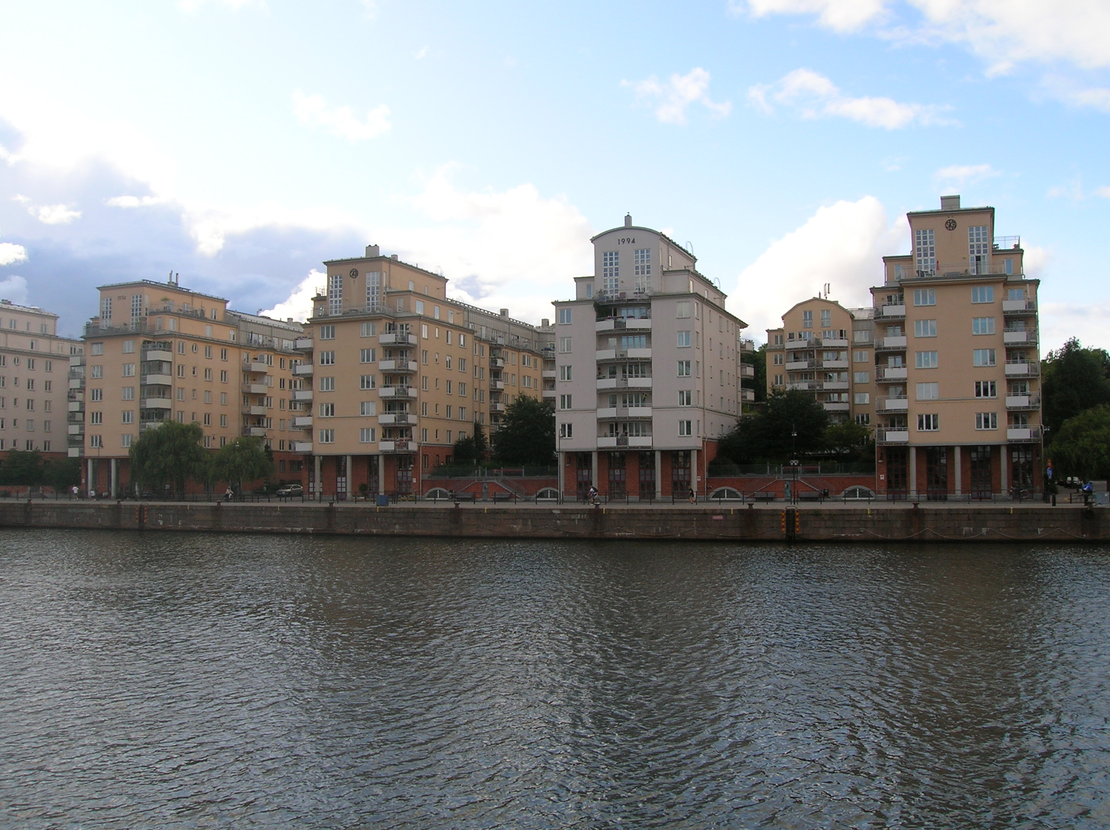 Houses around Tullgårdsgatan, Stockholm. Built 1994